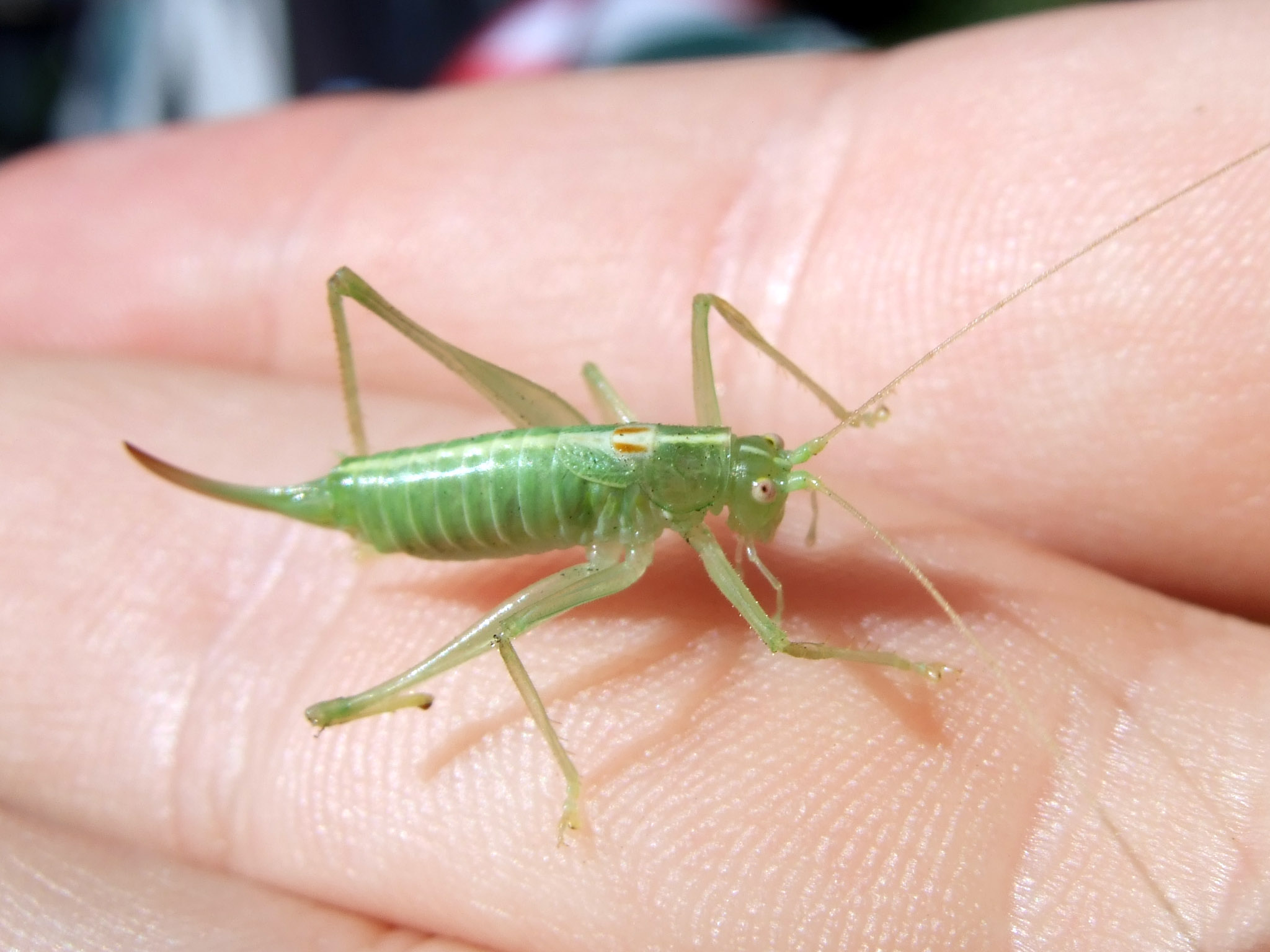 Grasshopper, Meconema meridionale, in Istria, Croatia